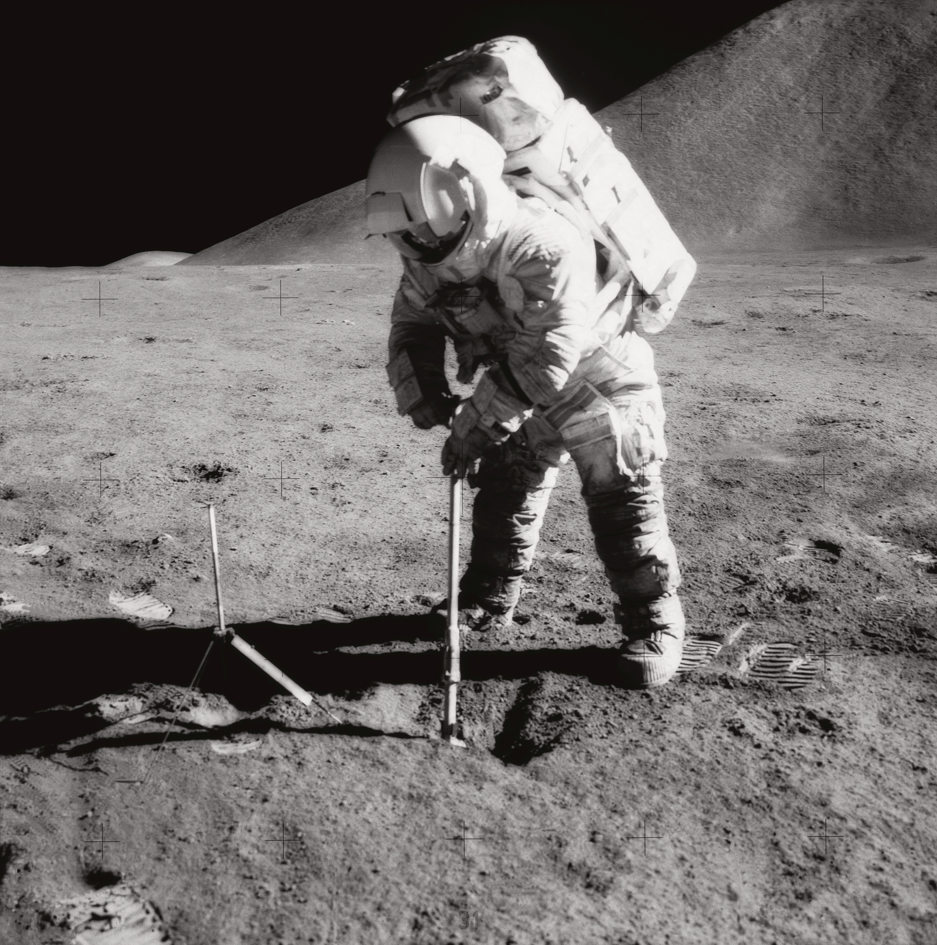 Astronaut James B. Irwin, lunar module pilot, uses a scoop in making a trench in the lunar soil during Apollo 15 extravehicular activity (EVA). Mount Hadley rises approximately 14,765 feet (about 4,500 meters) above the plain in the background.